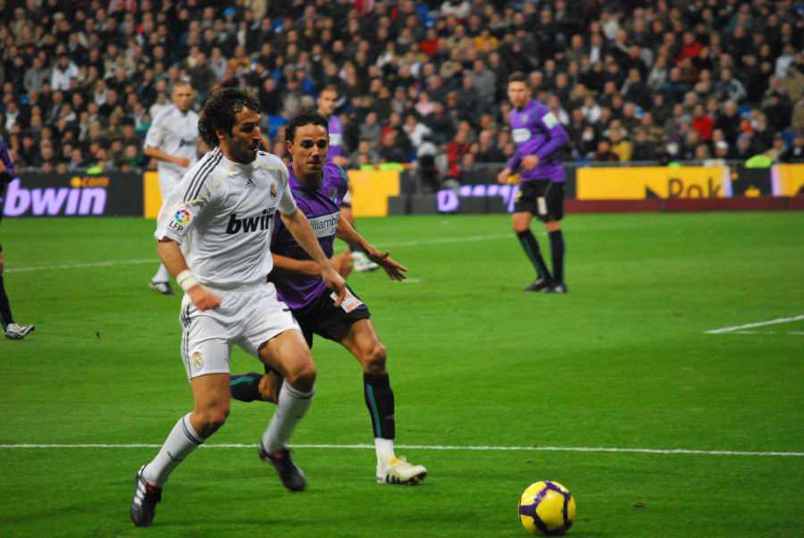 Raúl González vs Málaga CF